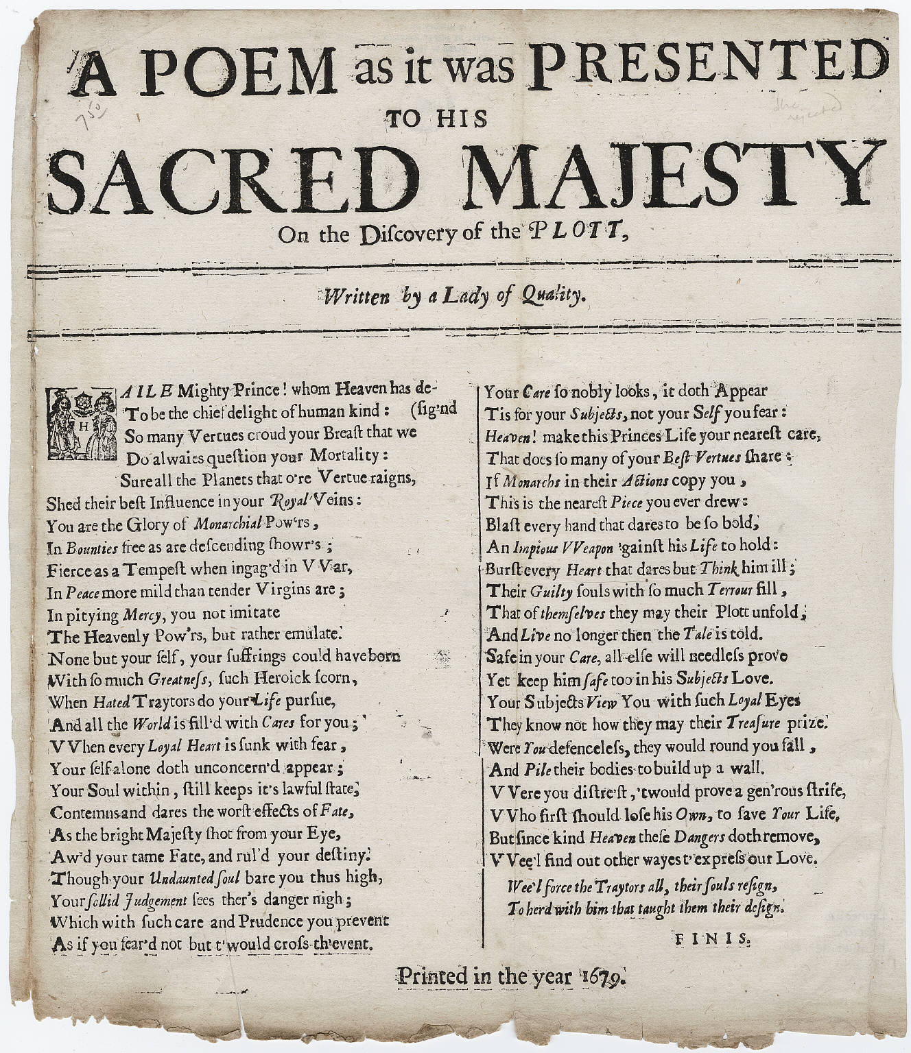 "Poem to His Sacred Majesty, on the plot: A Poem as it was presented to His Sacred Majesty on the discovery of the plott / written by a lady of quality," by Ephelia, 1679. Attributed alternatively to Mrs. Joan Philips or to Lady Mary Villiers (later Mary Stewart, Duchess of Richmond and Duchess of Lenox). Printed presumably at London. 33 cm x 29 cm. General Collection, Beinecke Rare Book and Manuscript Library, Yale University, New Haven, Connecticut.